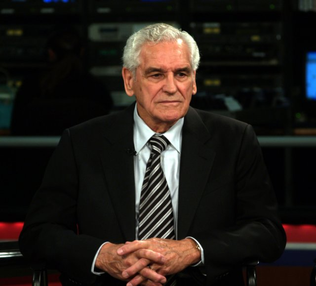 Photo of Al Carmichael when he visited the KUSI-TV studio. Attribution to: Phil Konstantin